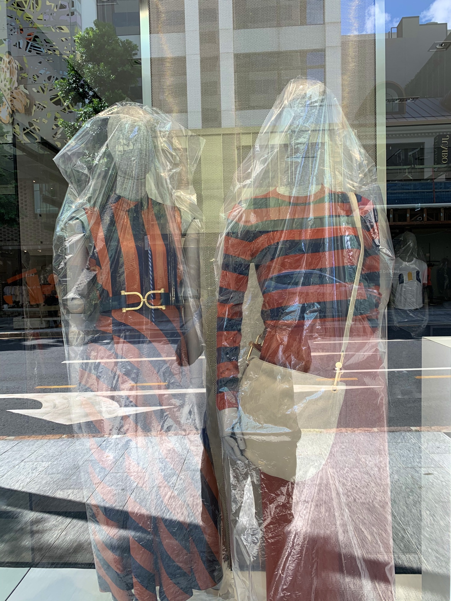 Hugo Boss store during the COVID-19 pandemic in Brisbane, Australia